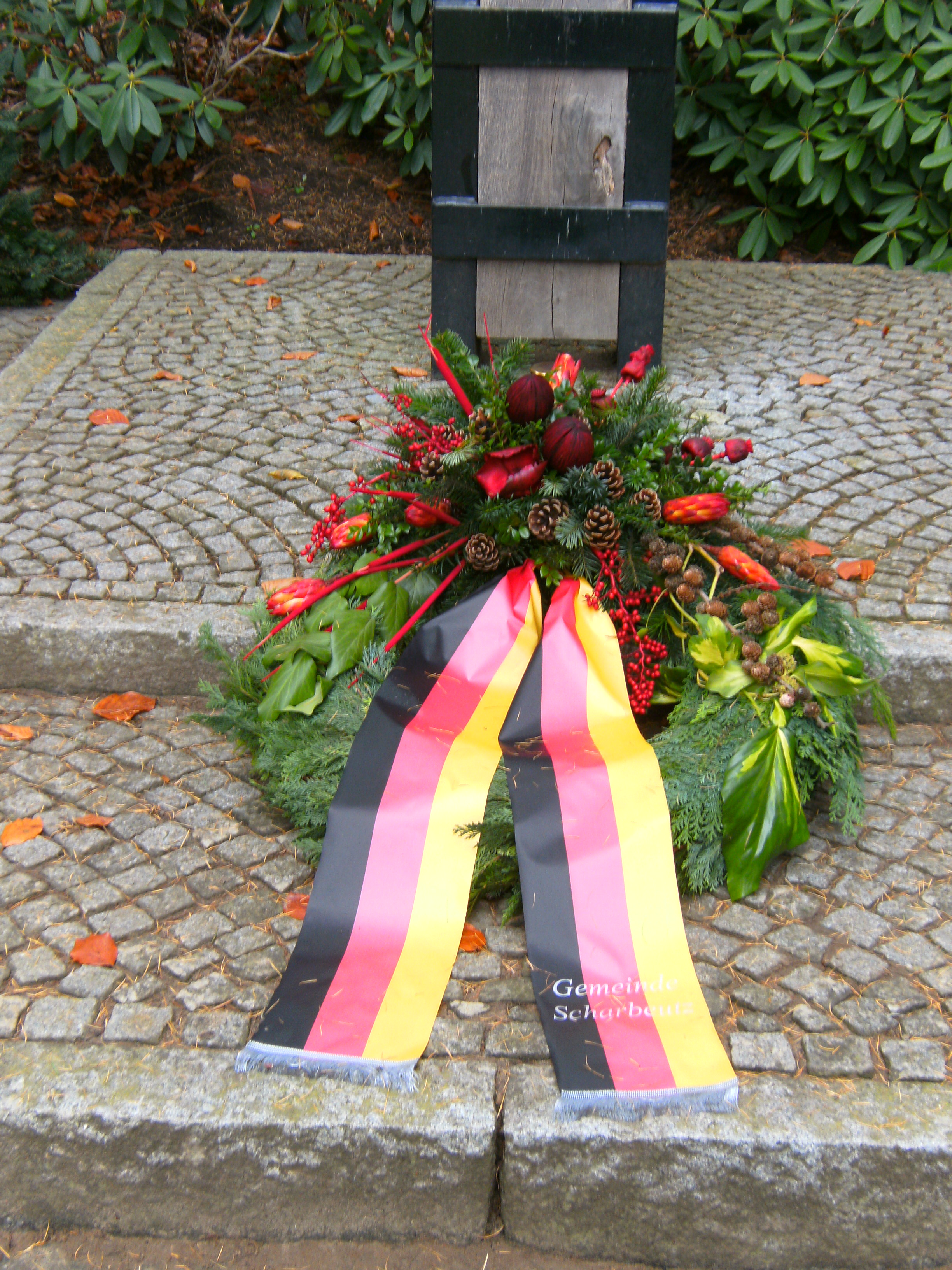 Wreath at the high cross by municipality of Scharbeutz on Cap Arcona cemetery Scharbeutz-Haffkrug (Ehrenfriedhof Cap Arcona in Scharbeutz-Haffkrug).